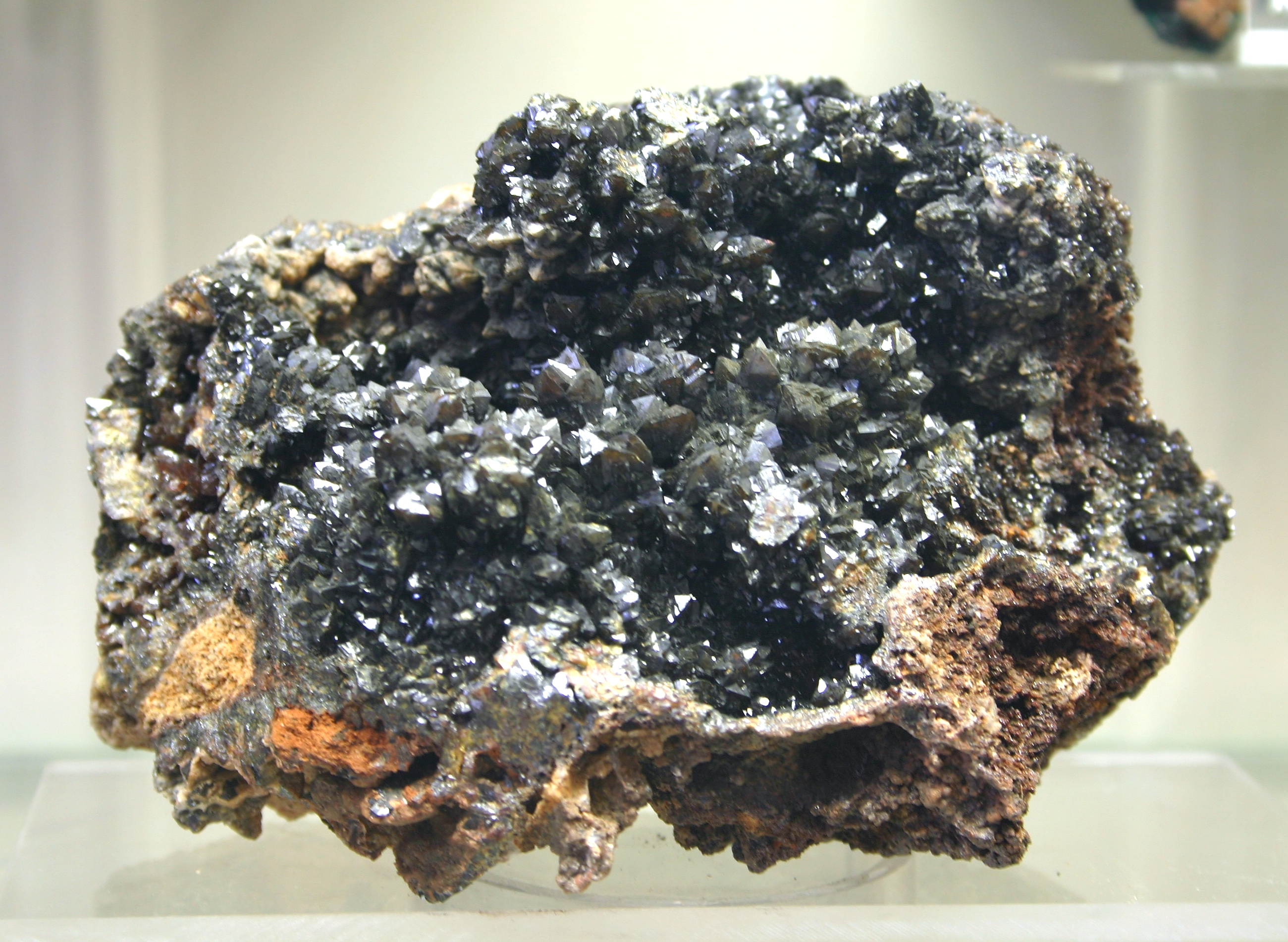 Descloizite. Locality: "Otivabergland", Southwest Africa. Exposed in the Mineralogical Museum, Bonn, Germany